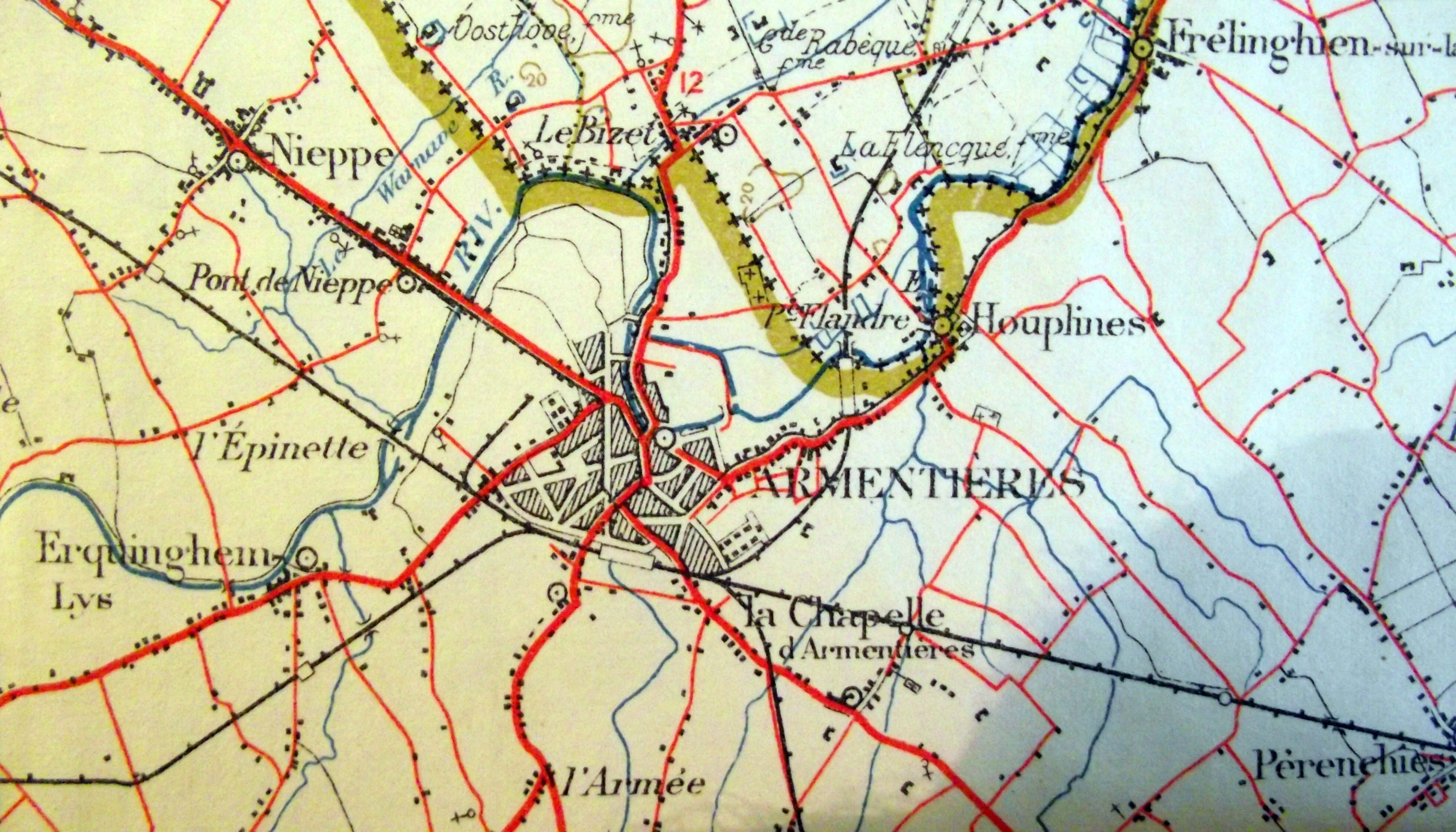 Armentières on a military map of 1922. Clearly shown are local tram/railway lines in the city. (Black lines with points)